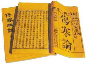 Shang Han Lun